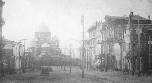 Gogolya Street in— (present day Volgograd).